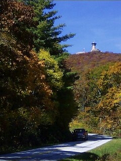 Georgia State Route 180 Spur as it approaches Brasstown Bald.